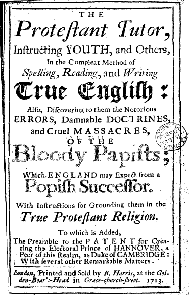 Title page from the Protestant Tutor